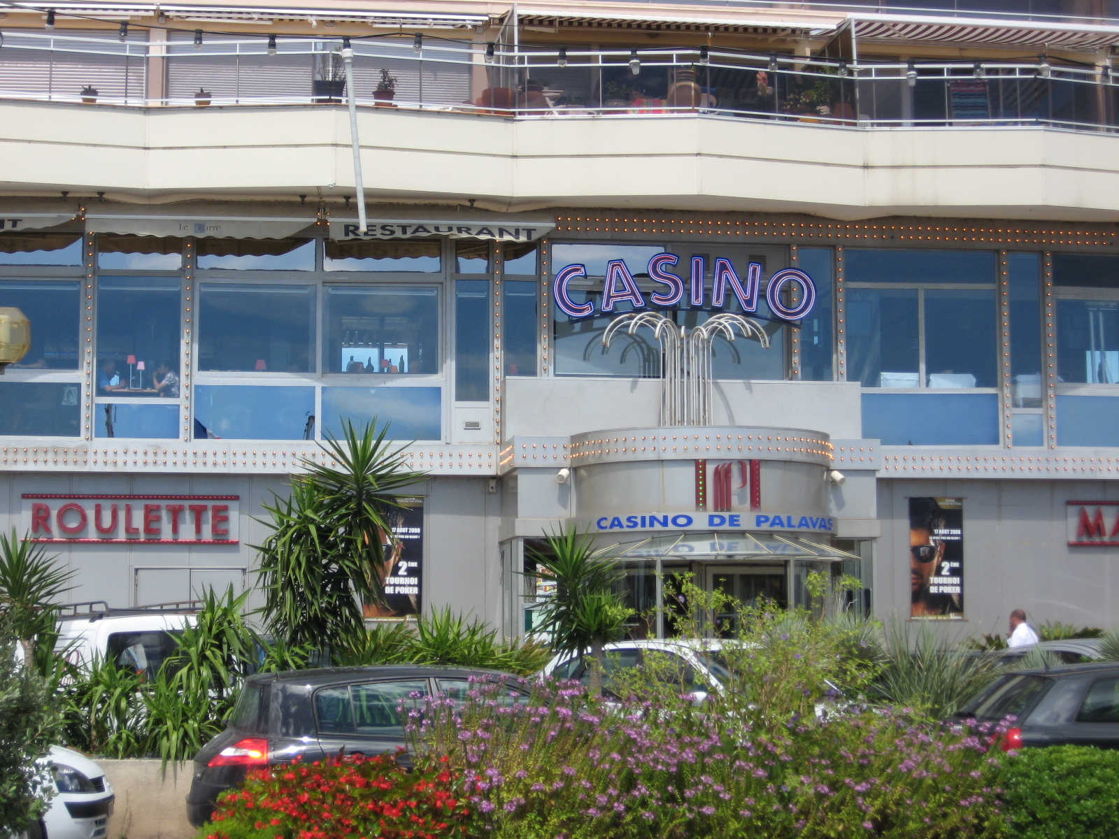 Casino of Palavas-les-Flots (France)